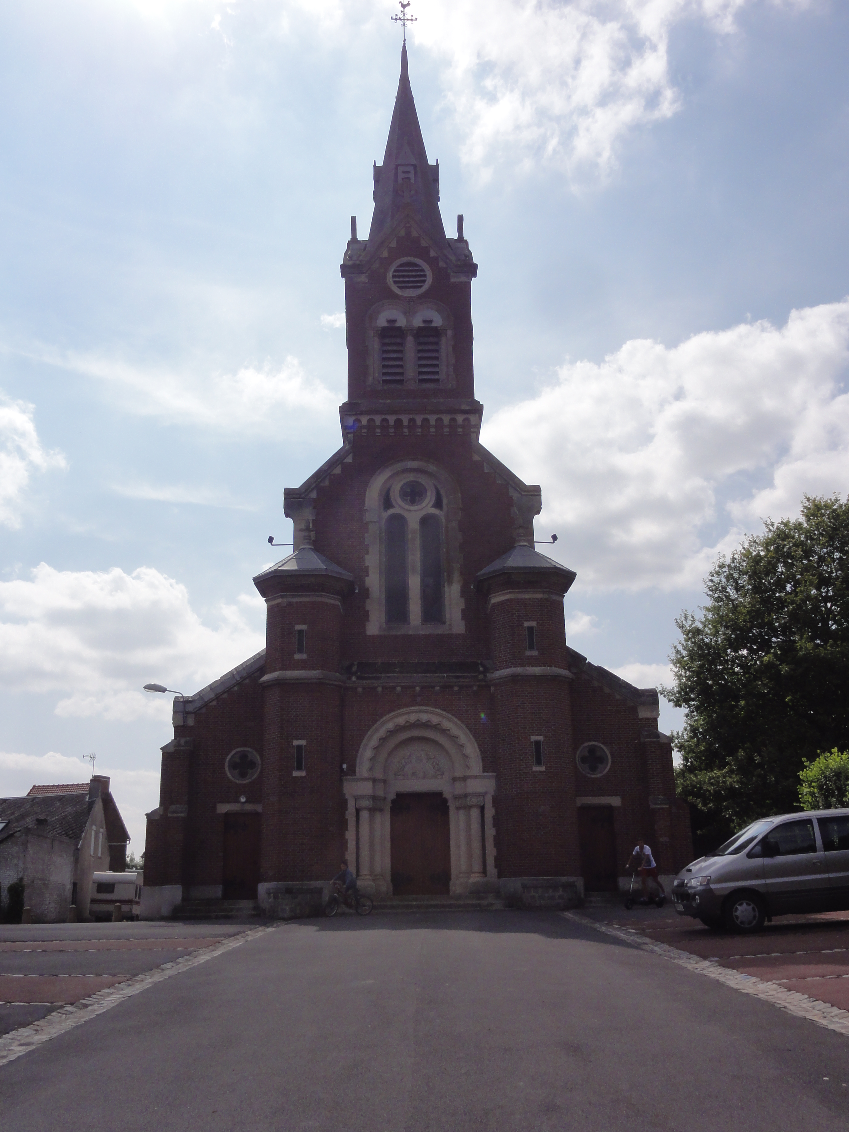 Montbrehain (Aisne) église